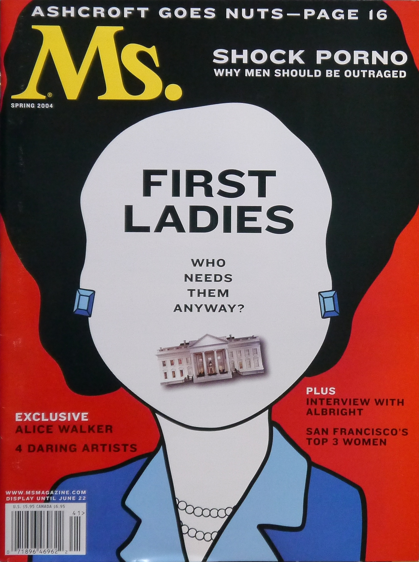 Ms. magazine, Spring 2004 "First Ladies" issue